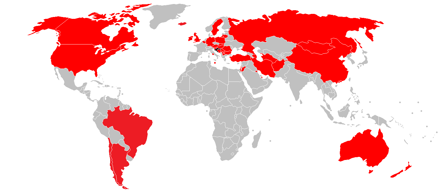 Map marking countries visited by Kolinda Grabar Kitarović, 4th president of Croatia.